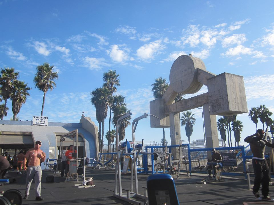 Muscle Beach, August 2012